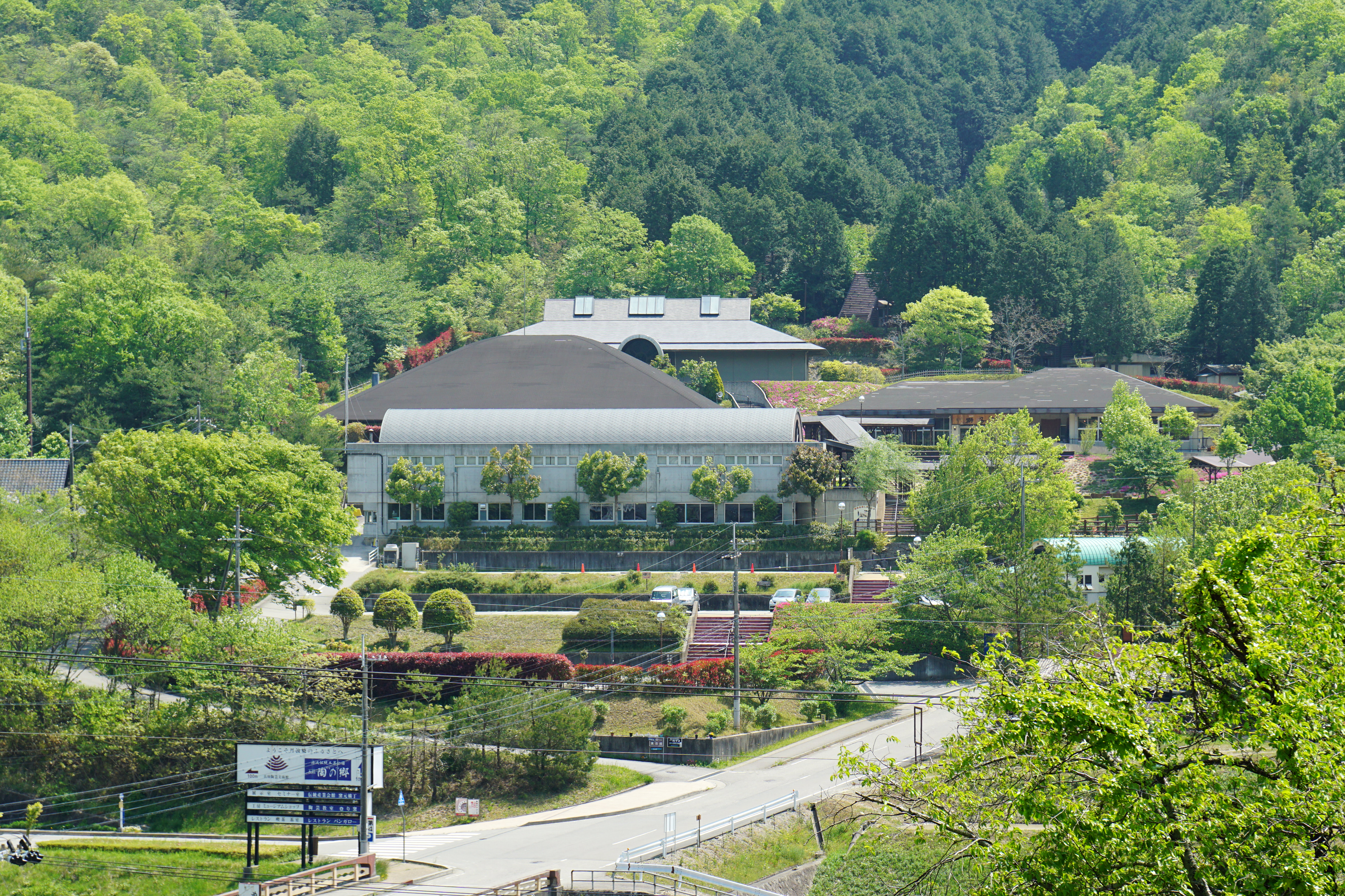 Tamba Traditional Art Craft Park Sue no Sato in Sasayama, Hyogo prefecture, Japan.